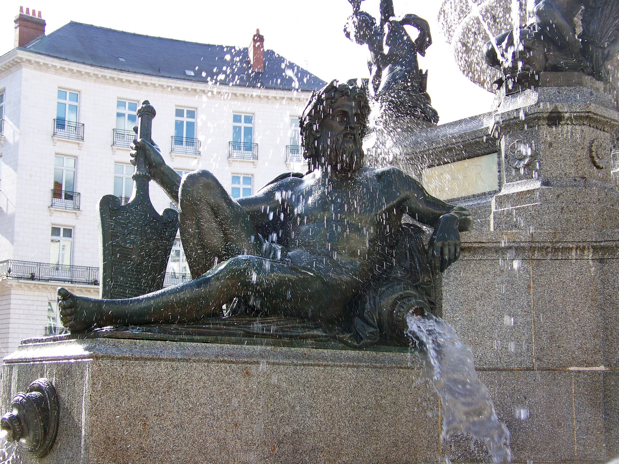 Allegorical statue of the Cher river on the fountain of the Place Royale in Nantes. Architect of the place: Mathurin Crucy (1788). Fountain by Daniel Ducommun de Locle, Guillaume Grootaërs and Simon Voruz (1865).